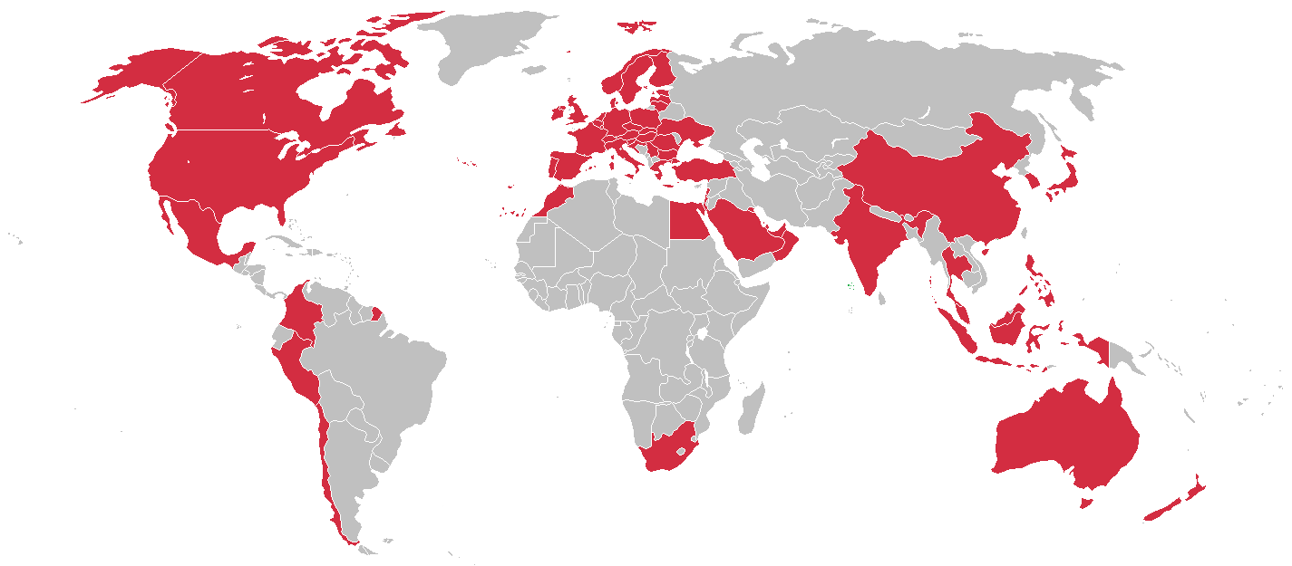 H&M stores worldwide. Red: Current countries H&M operates in. Pink: Planned expansion.